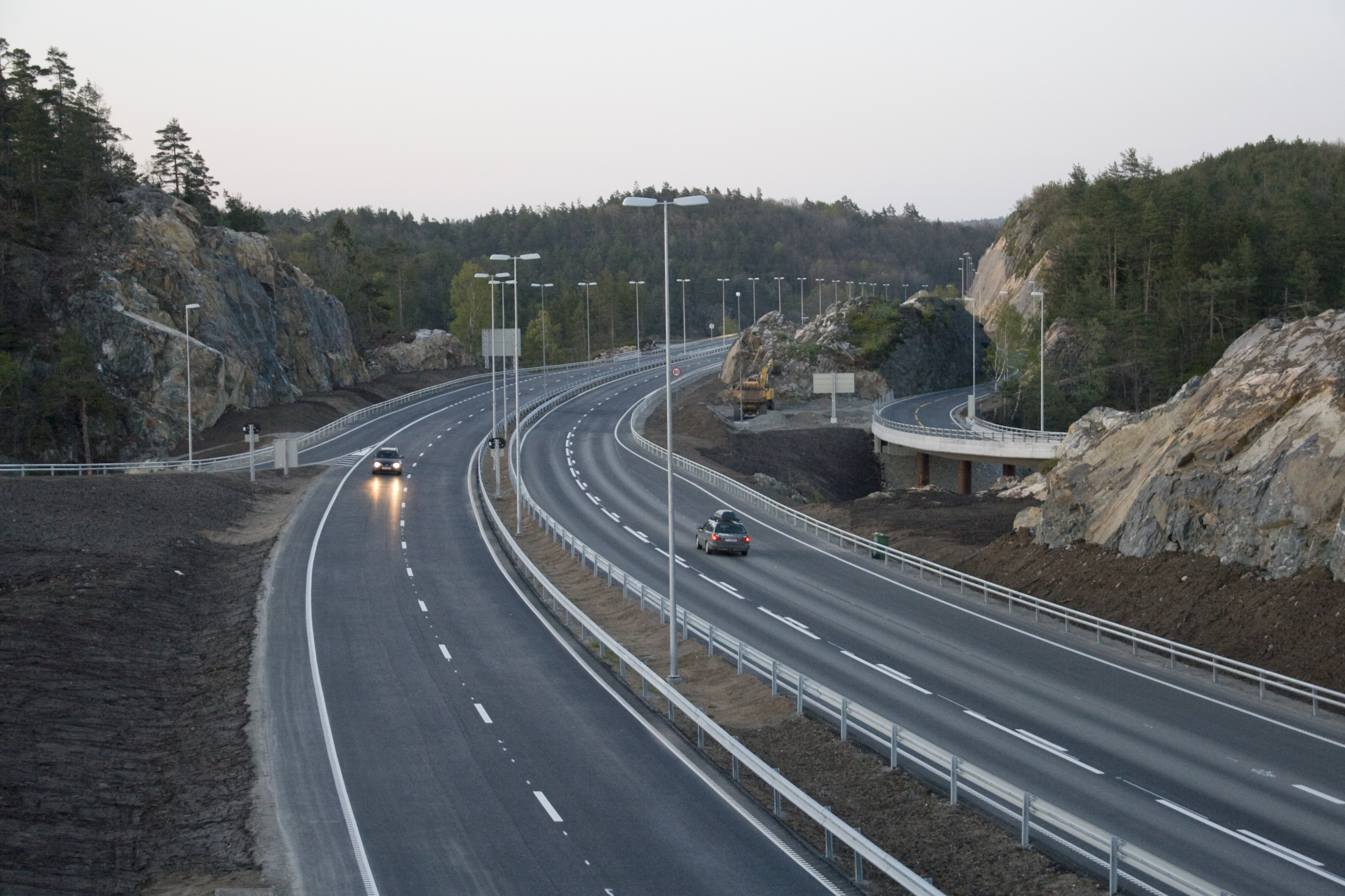 View of E 18 towards east, close to Kristiansand Zoo, Norway. This part of the road opened 1. May 2009, and is a part of the new E 18 from Kristiansand to Grimstad, which is supposed to be completely finished in August 2009. The old E 18 (now Norwegian national road 420) road can be seen to the right.